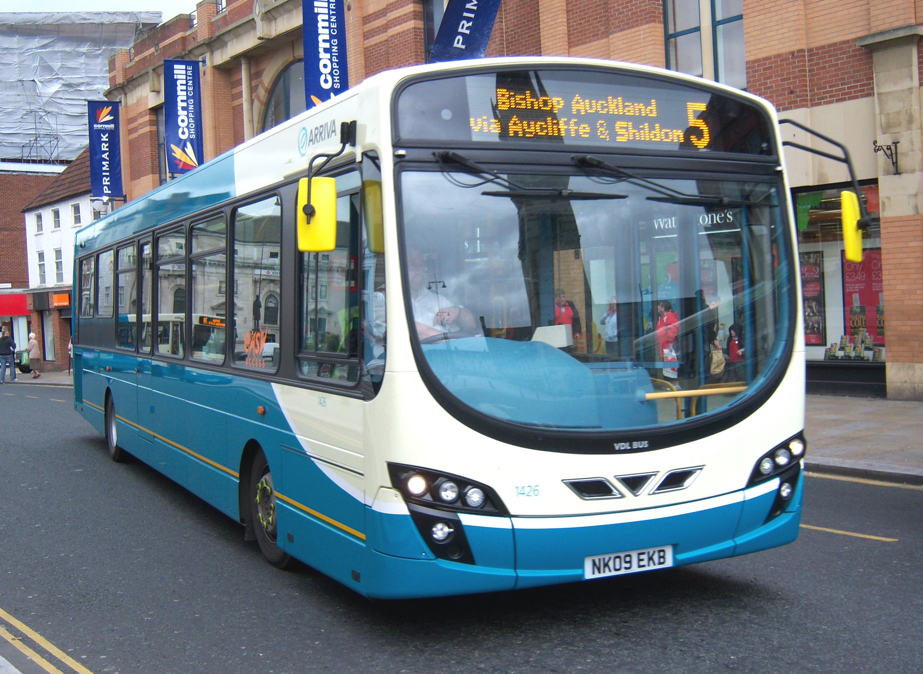 Arriva North East 1426 (NK09 EKB), a VDL SB200/Wright Pulsar 2, in Darlington on route 5.